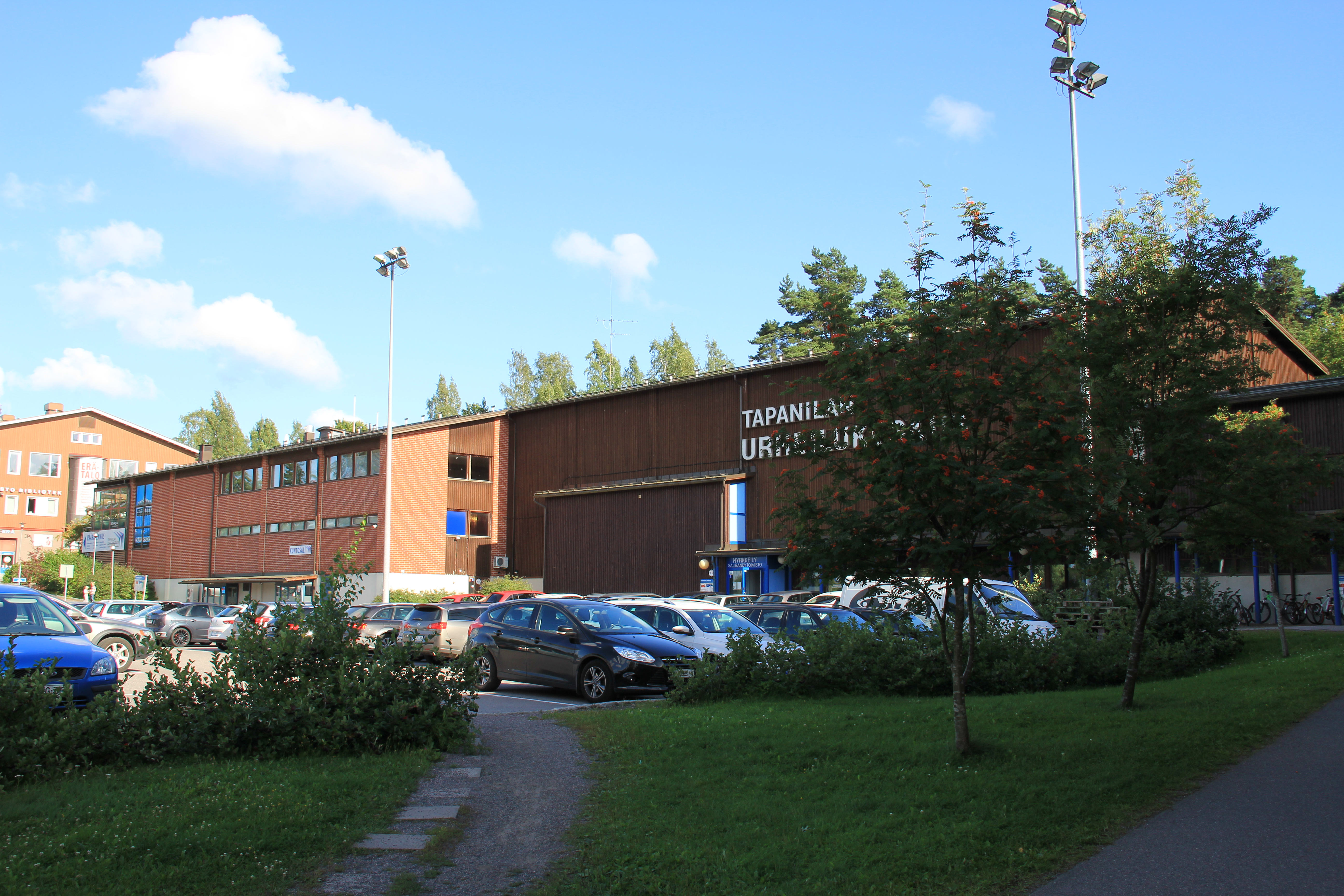 Tapanilan Erä, main building, Tapanila, Helsinki, Finland.